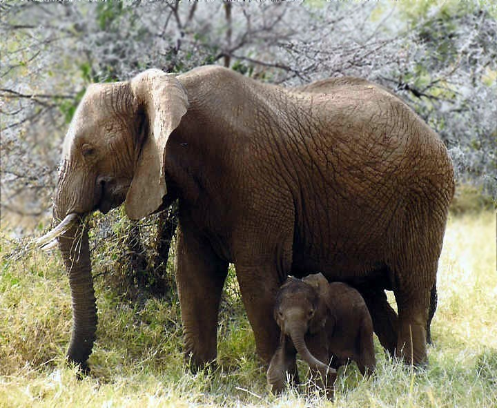 A female elephant with offspring, in Kenya.